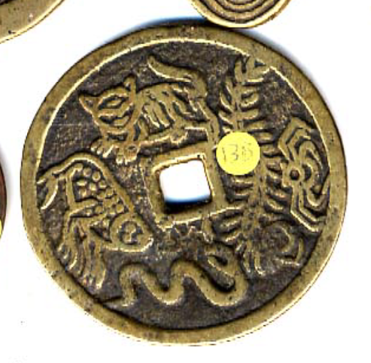 A brass Chinese numismatic charm that was sold by Scott Semans.